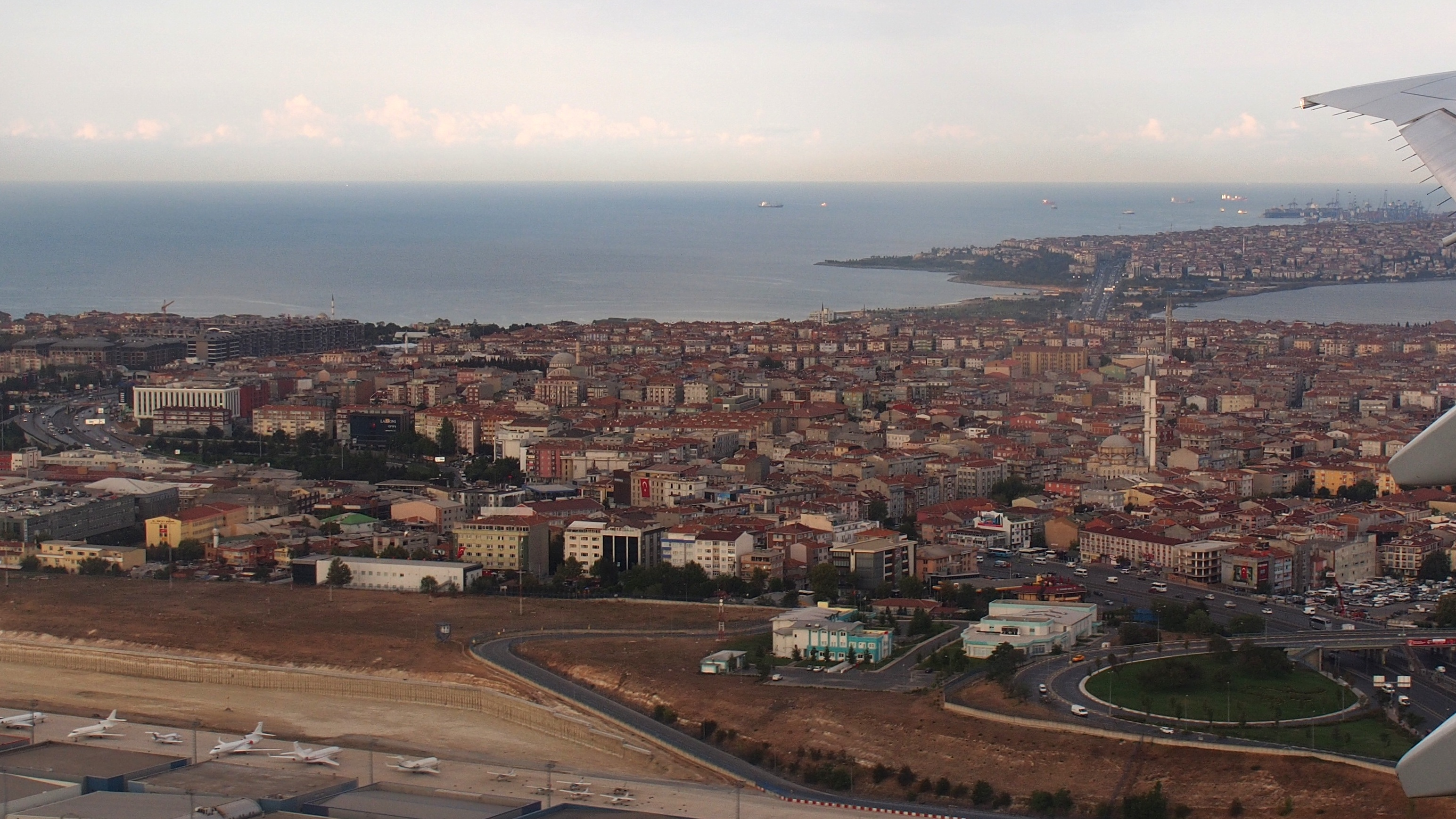 Aerial View of Küçükçekmece District of Istanbul - 2013.08